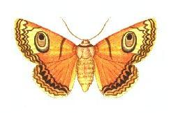 PLATE CCXX.